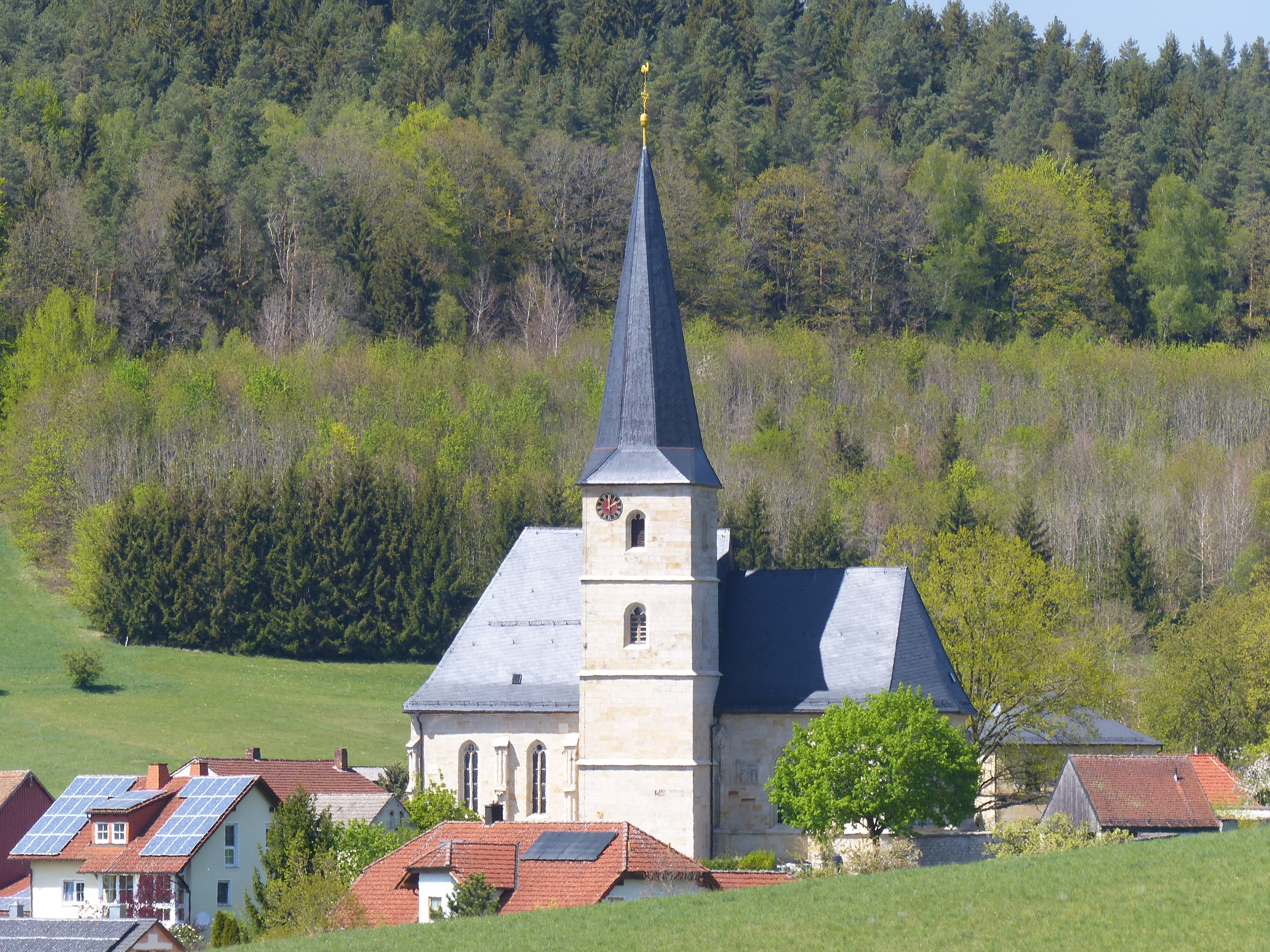 The church of parish village Volsbach, a district of the municipality of Ahorntal.